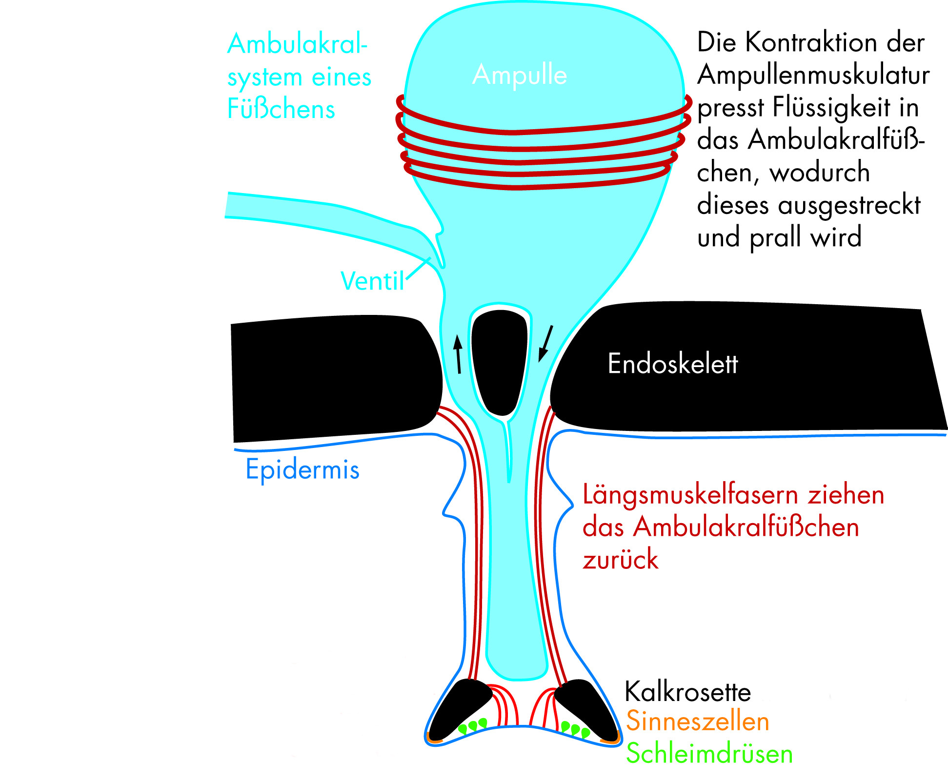 Schematic drawing of the ambulacral feet of an Echinoderm